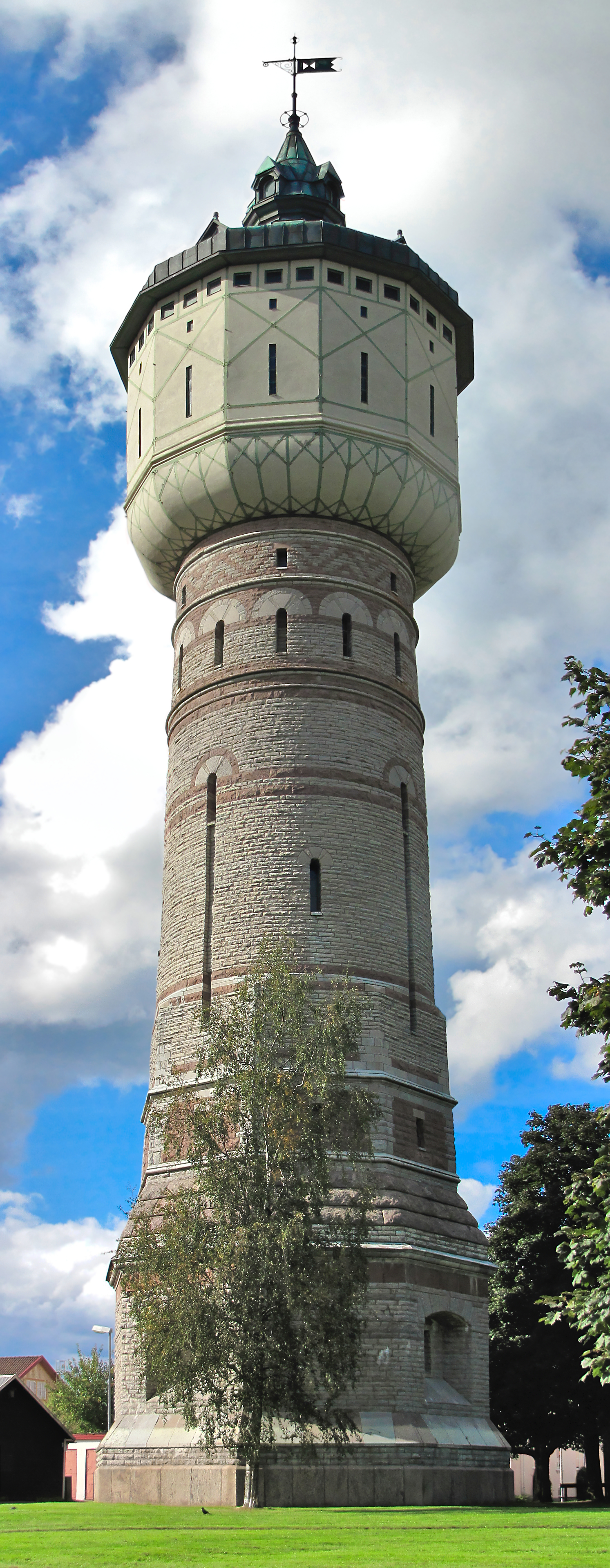 Skara water towerDansk: Skara vandtårn